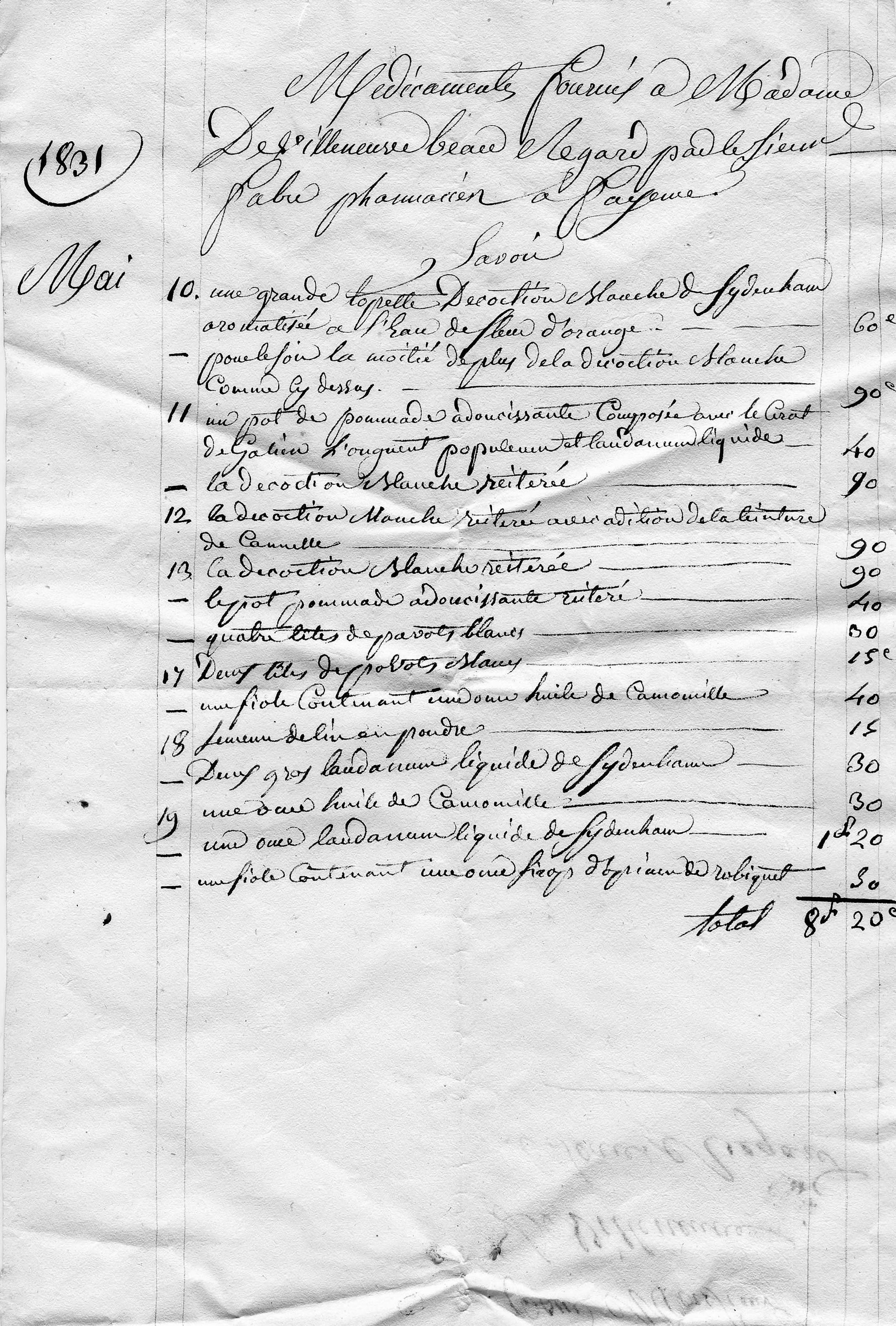 medical prescrition (1831)